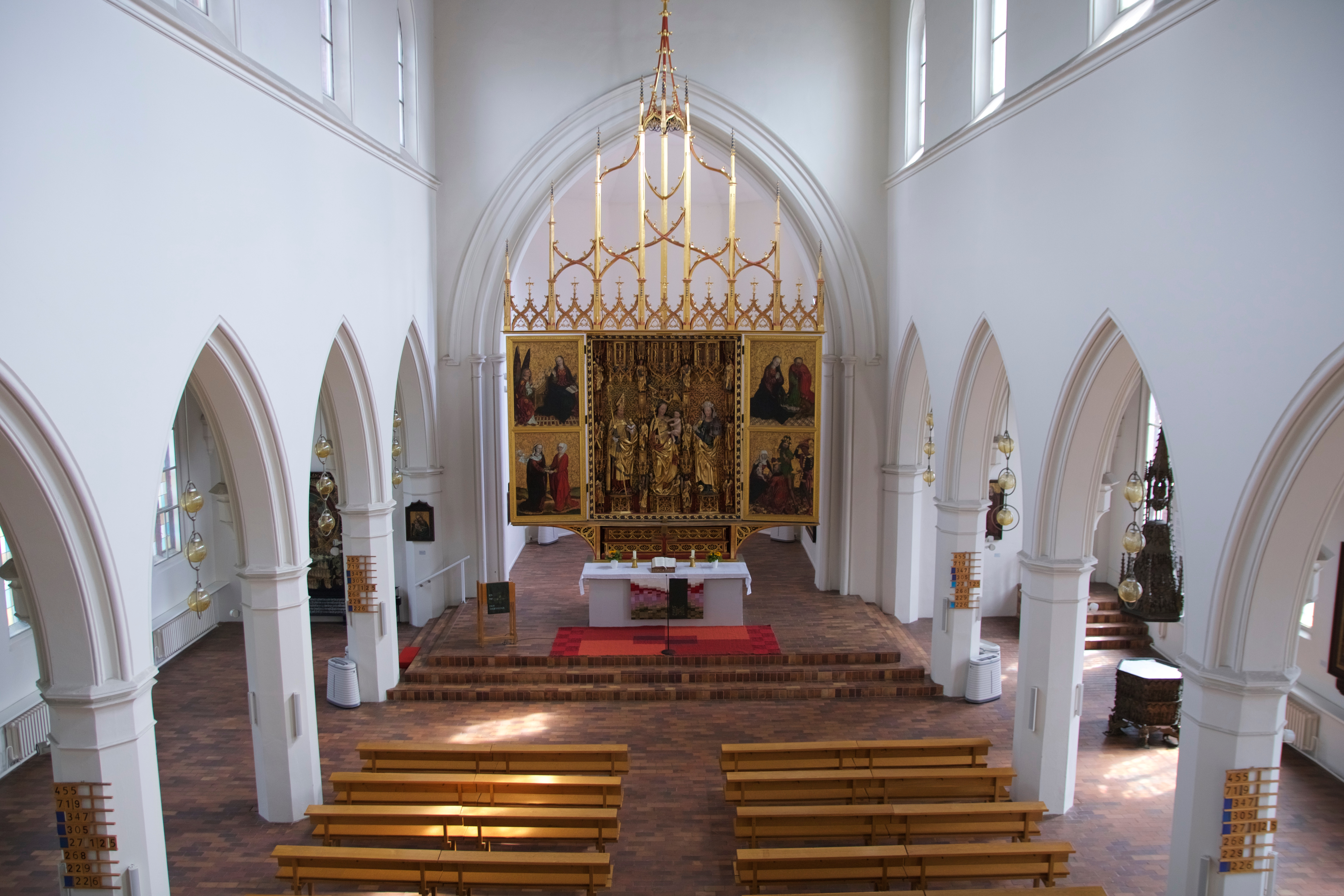 Interior of St Gertraud's Church, Frankfurt (Oder): View of the 15th-century altar